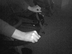 Hand position for indoor cycling